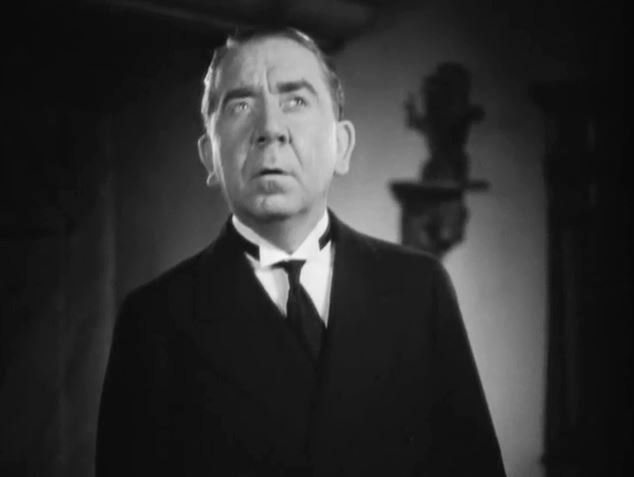 Low resolution screenshot of Baxter the butler (Herbert Mundin) from the American film Charlie Chan's Secret (1936). The film is in the public domain due to the omission of a valid copyright notice on its original prints.